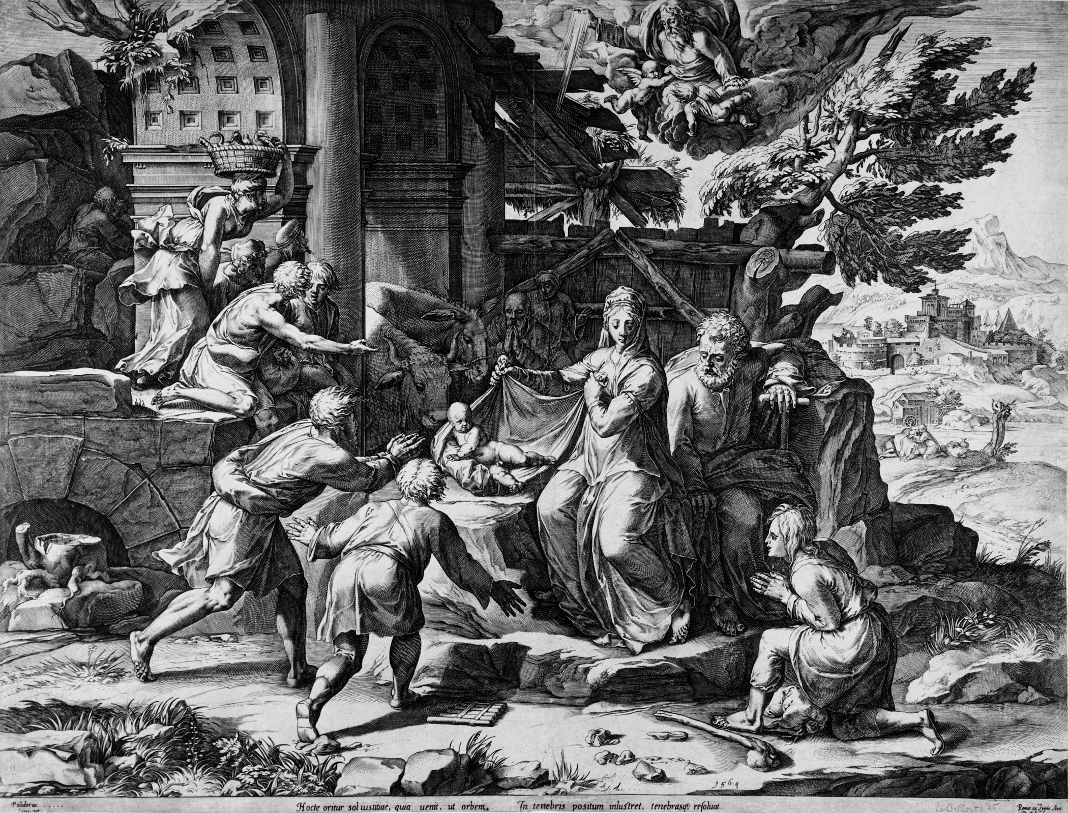 Holland, 1569 Prints; engravings Engraving Mary Stansbury Ruiz Bequest (M.88.91.94) Prints and Drawings